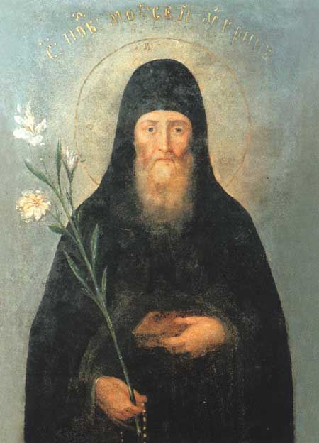 Saint Moses the Hungarian. Monk of Kiev Caves Monastery and Orthodox saint (d. 1043)